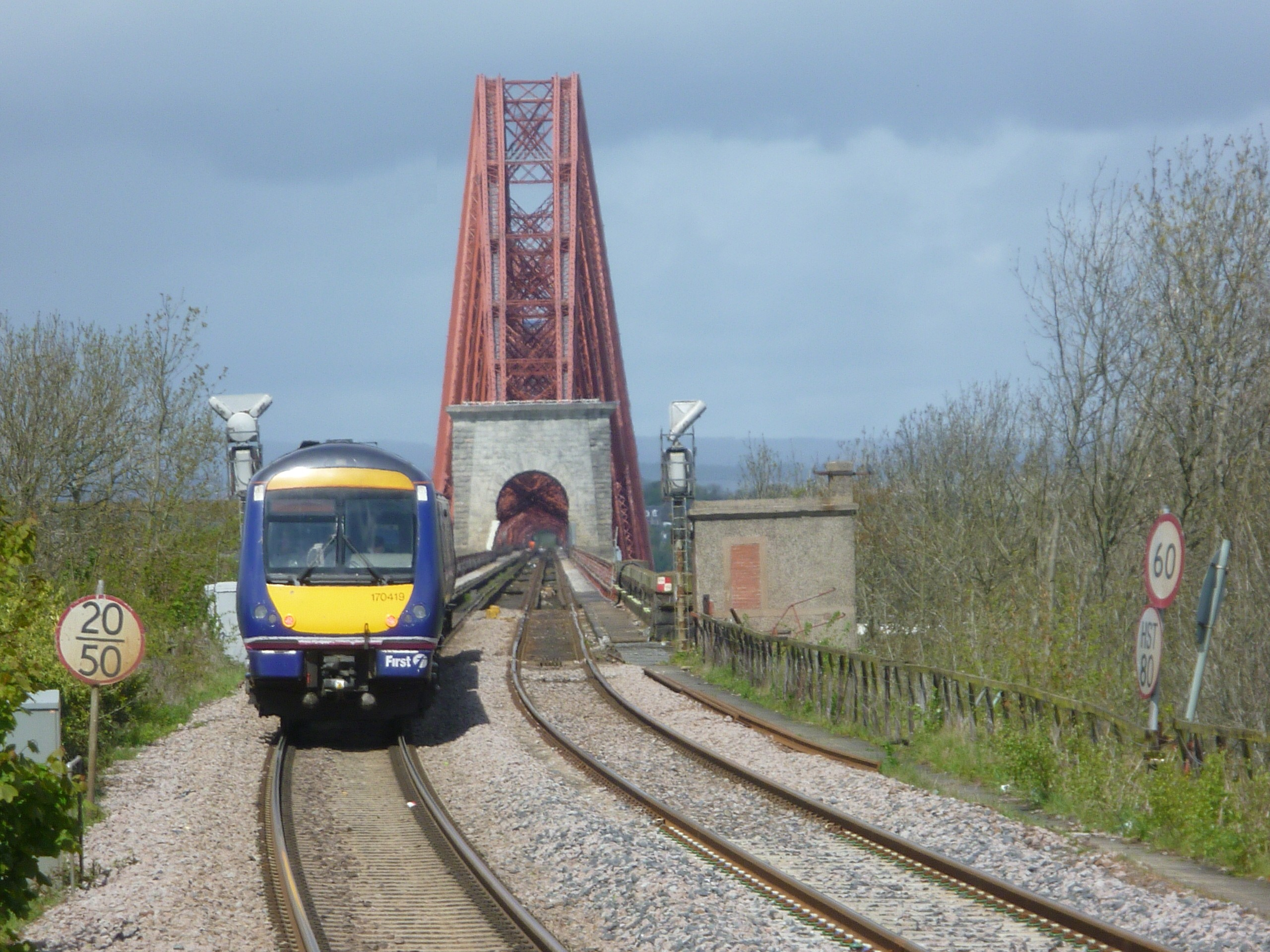 Train approaching the south end of the Forth Bridge from Dalmeny Station